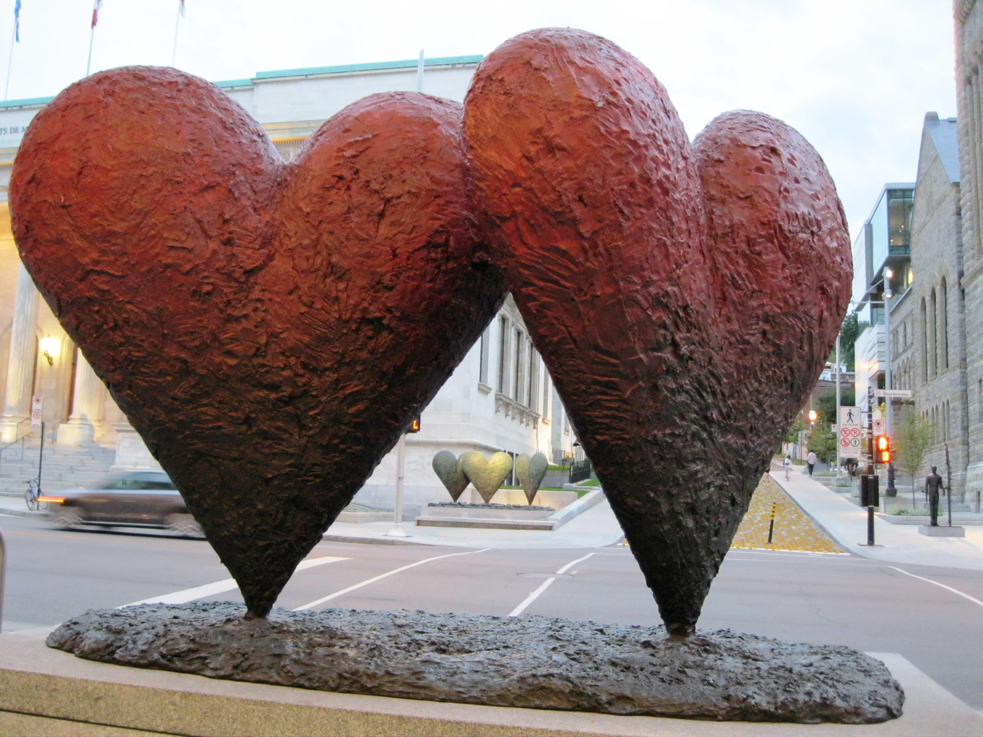 Twin 6' Hearts (1999), by Jim Dine, in the front of the Jean-Noël Desmarais Pavilion, 1380 Sherbrooke Street West)